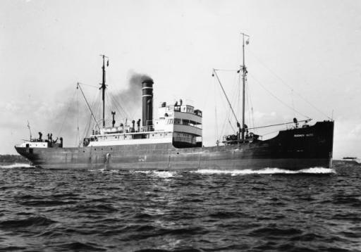 Finnish steamer Suomen Neito, built 1922 and broken up in 1963.